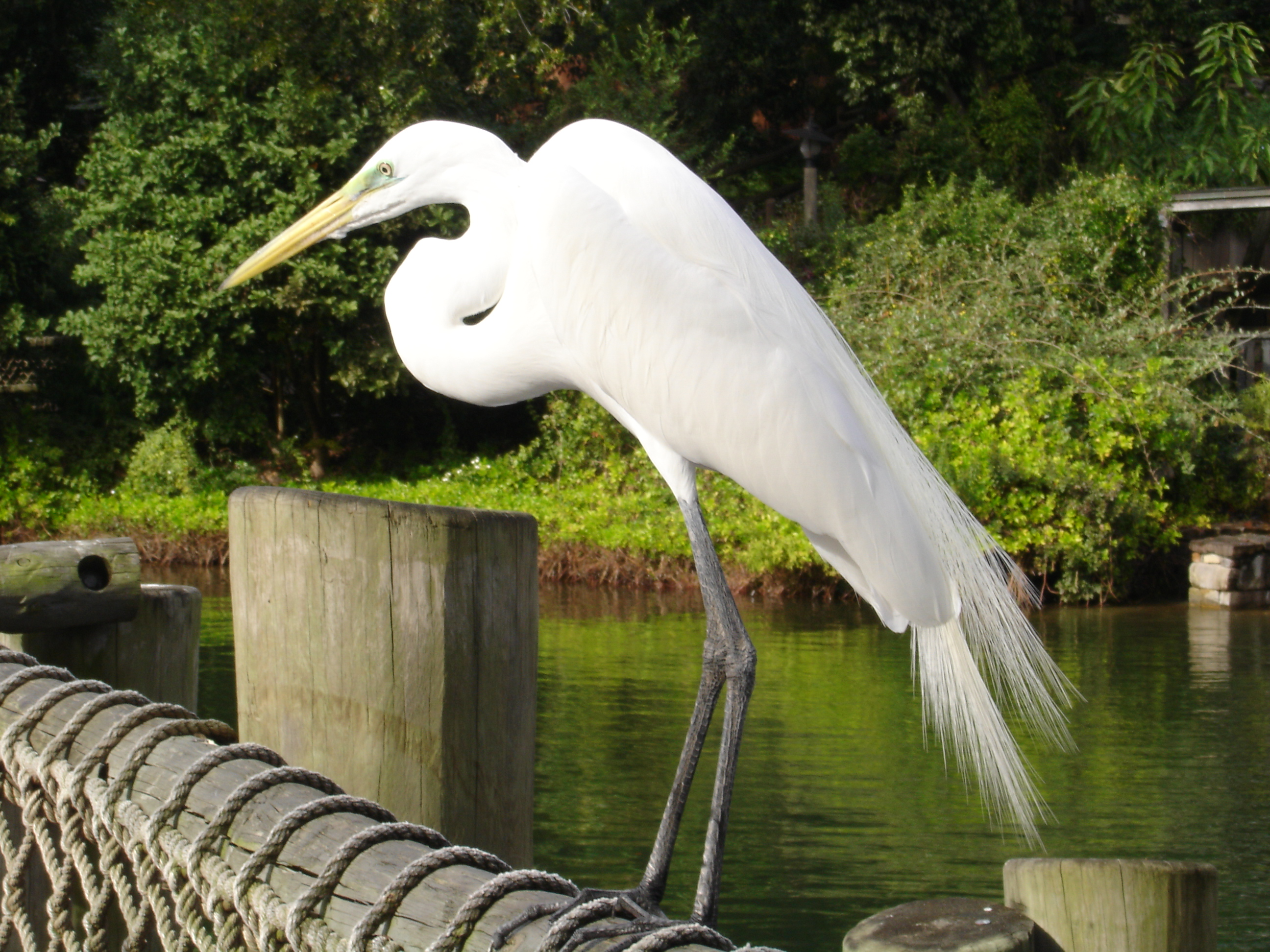 Great Egret on railing